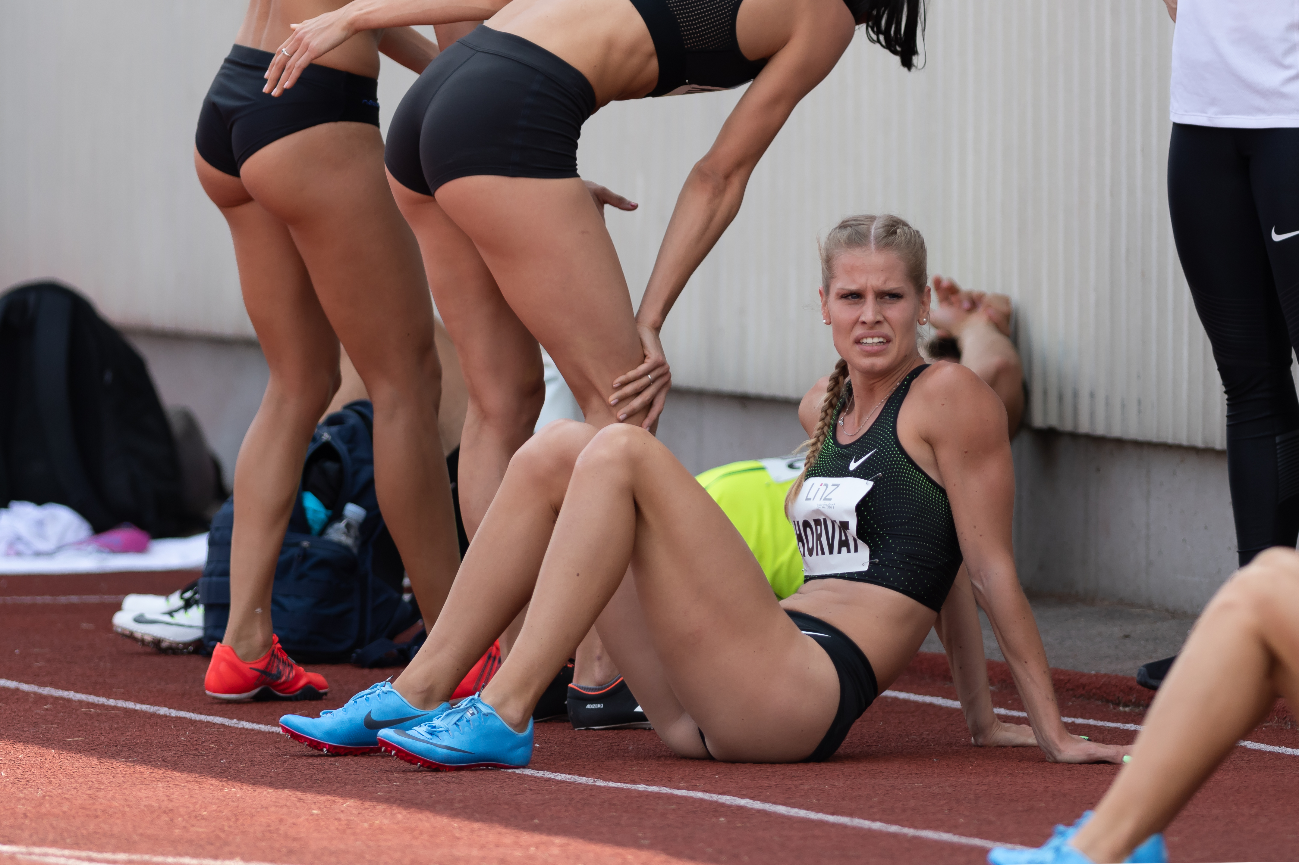 Leichtathletik Gala Linz 2018; women´s 400 m sprint; Horvat Anita, Atletsko društvo Mass Ljubljana (SLO)